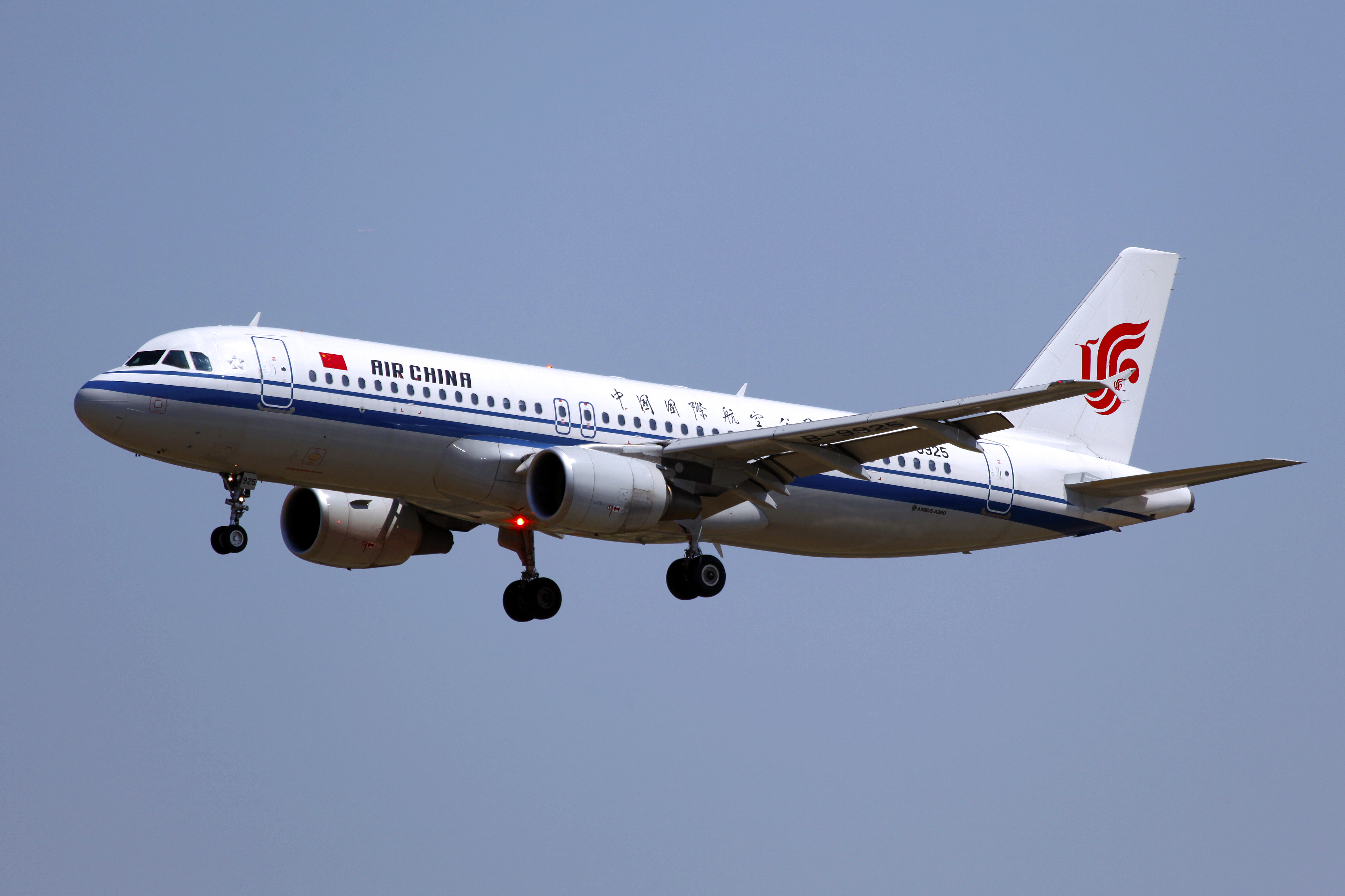 B-9925 | Air China | Airbus A320-214 | Beijing Capital International Airport [PEK]